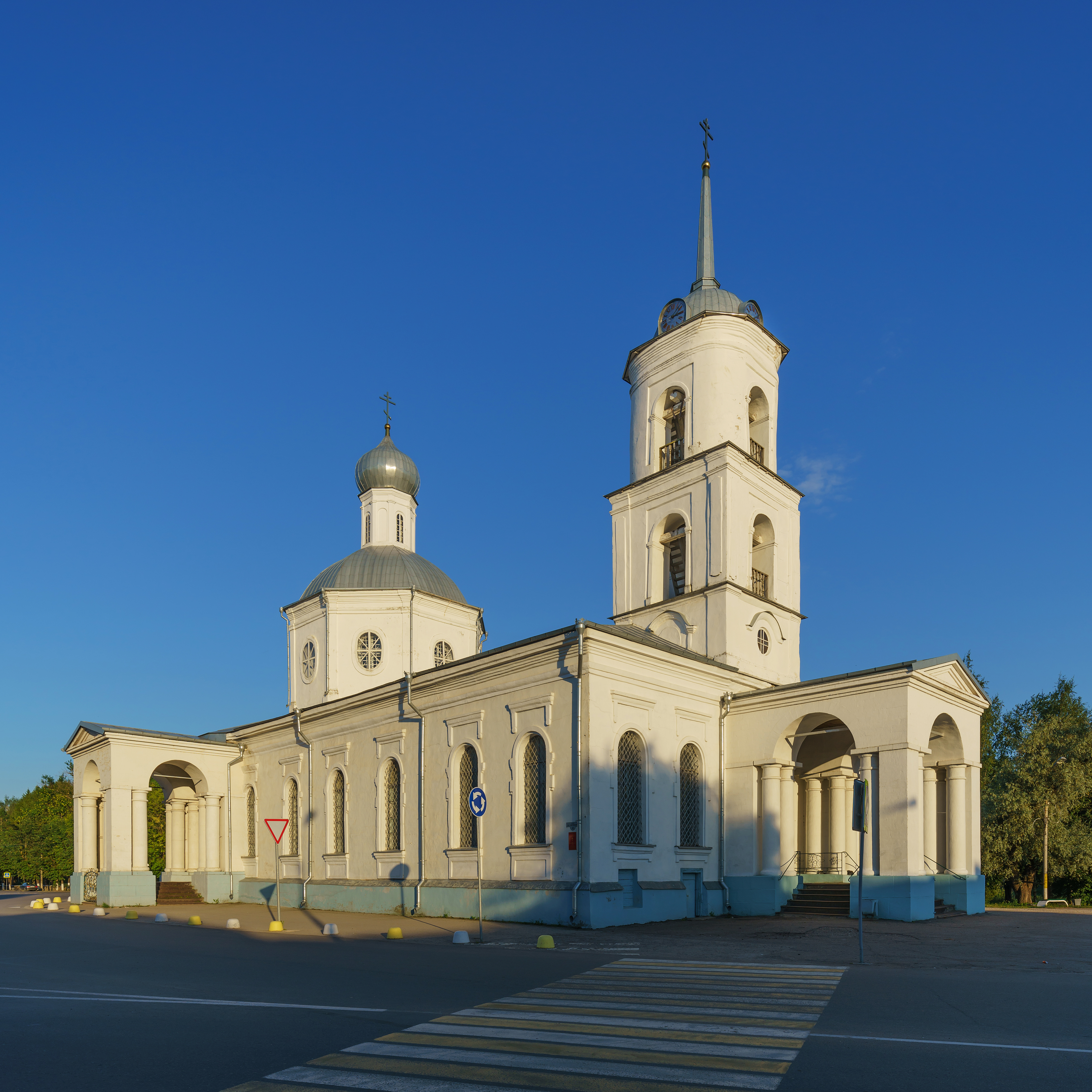 Trinity Cathedral in Ostrov, Pskov Oblast, Russia.